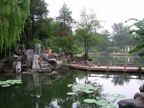 Gardens on Tsinghua University Campus, Tsinghua University, Bejing, China.